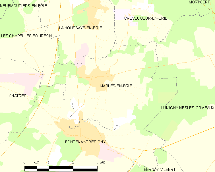 Map of French municipality Marles-en-Brie